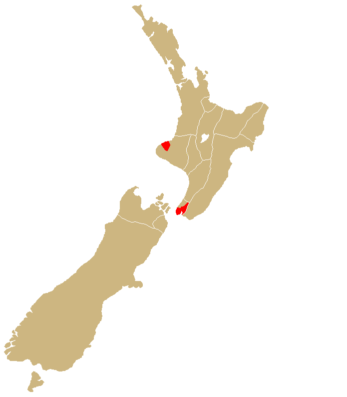 Area of Maori iwi Te Atiawa